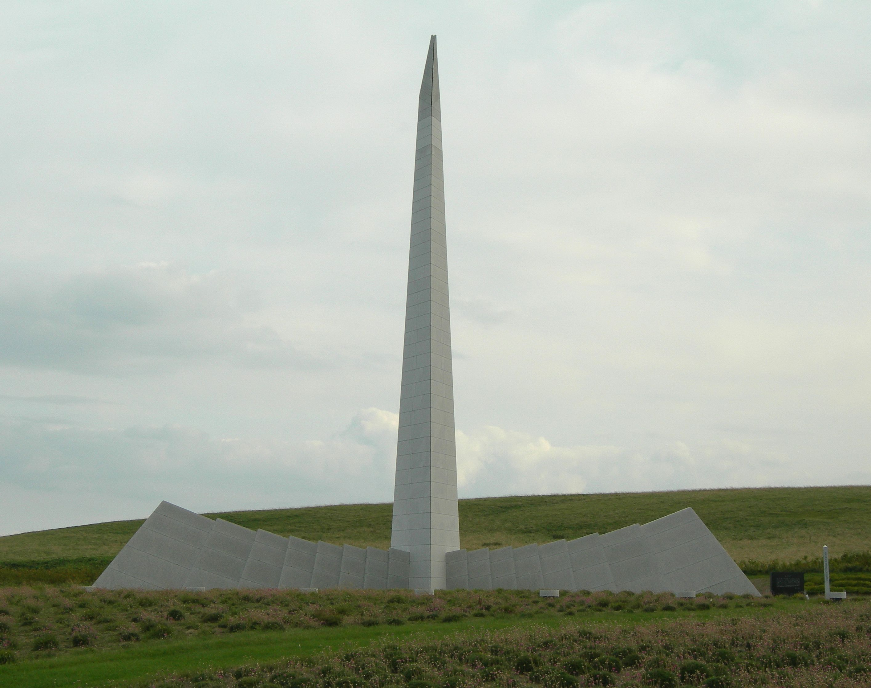 The "Tower of Prayer" is a memorial for those who lost their lives in the accident of the KL007 flight shot down by Soviet fighter in 1983